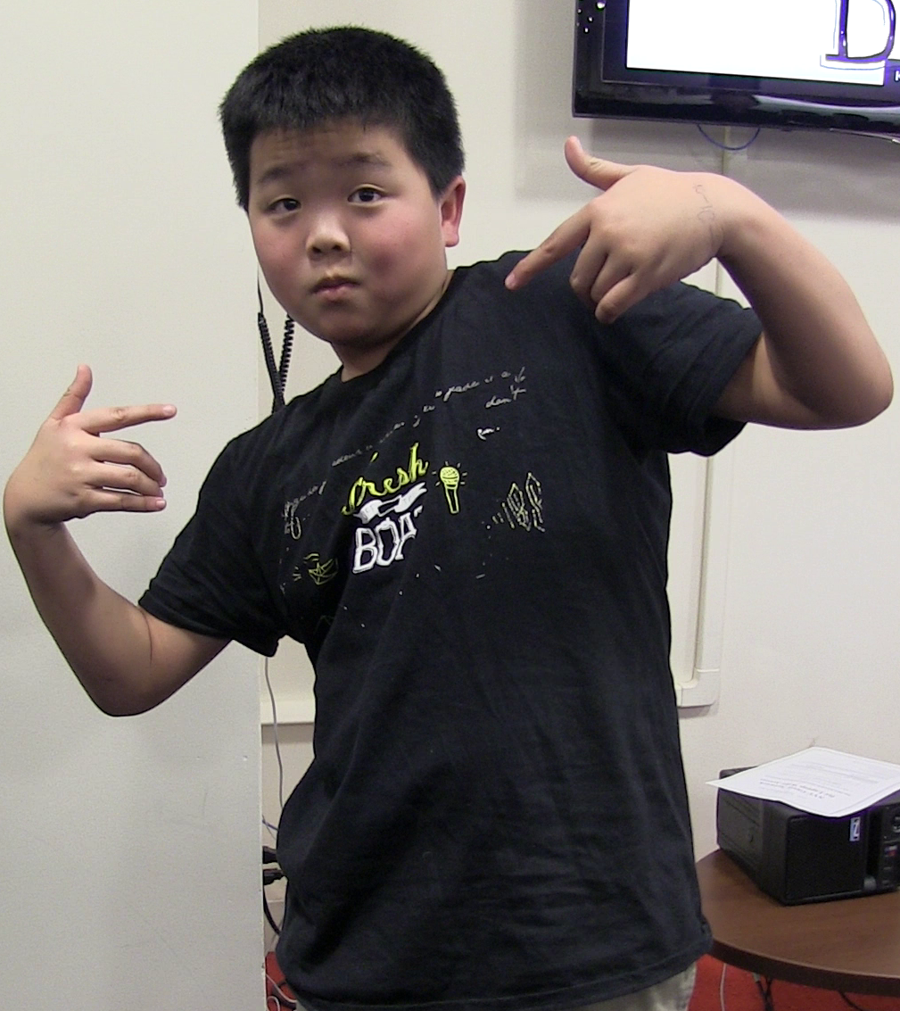 Hudson Yang posing at Fresh Off The Boat panel